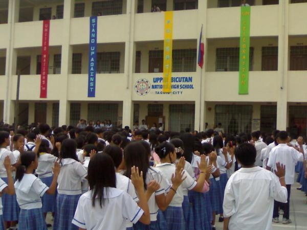 The facade of Upper Bicutan National High School during the pledge for the United Nation to fight Poverty.